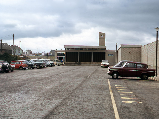 Portadown new railway station (1970)